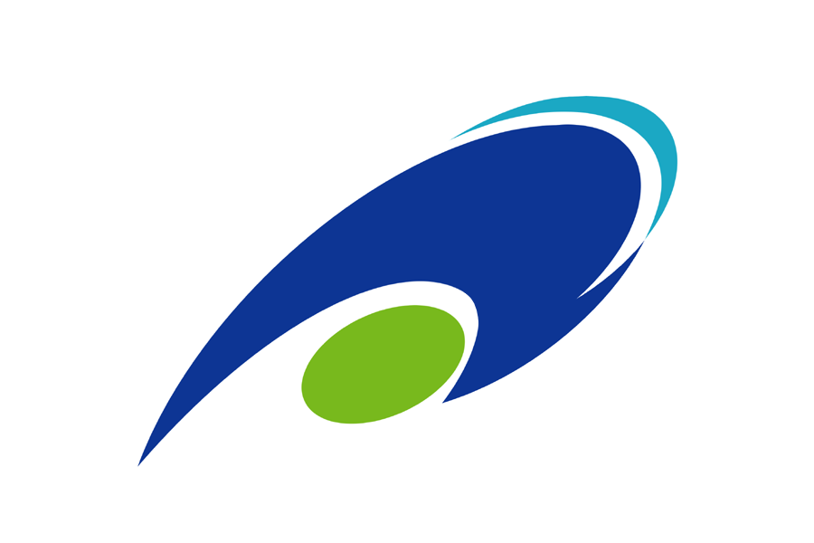 Flag of Tsu, Mie